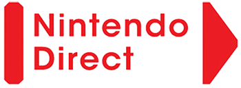 This is the logo for the Nintendo Direct series.